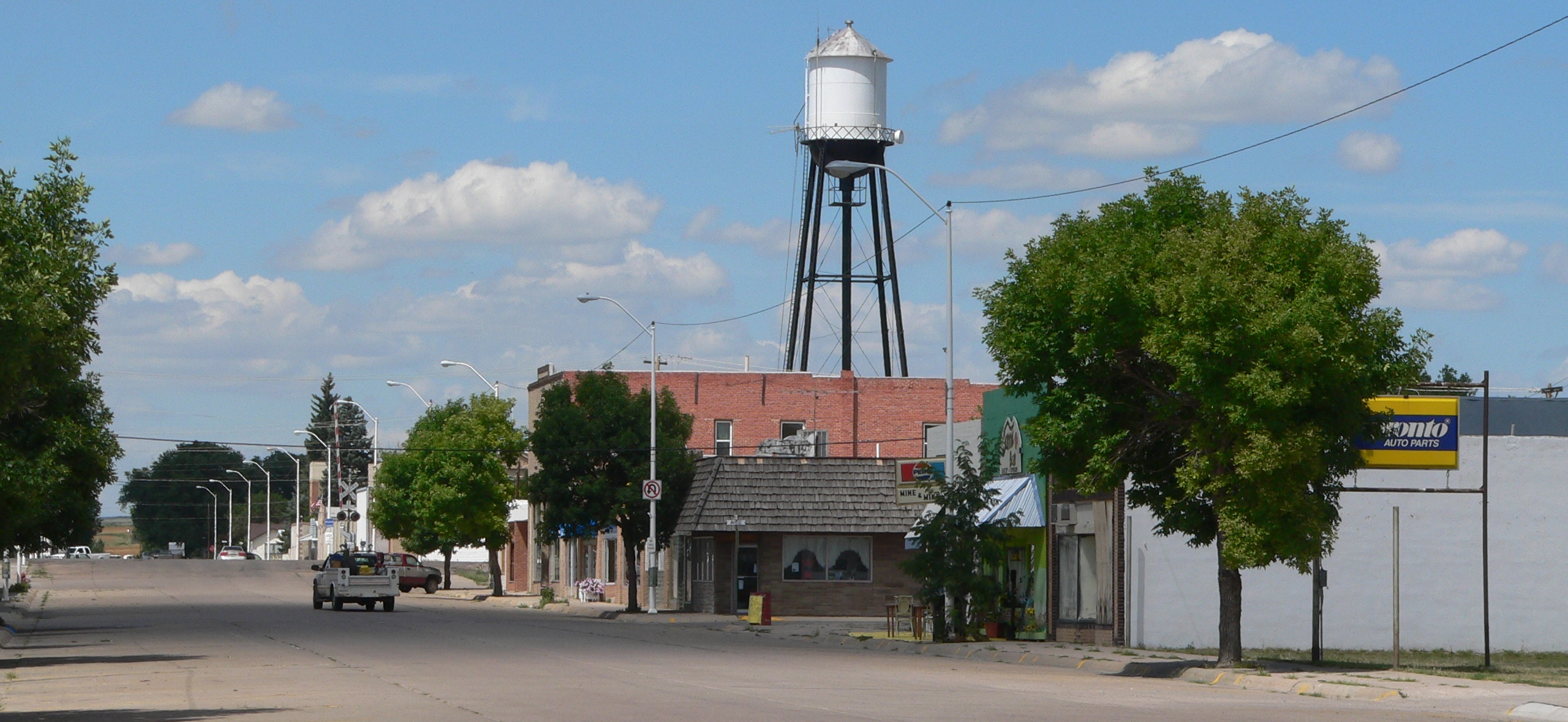 Downtown Oshkosh, Nebraska: east side of Main Street, looking north from about Avenue B.